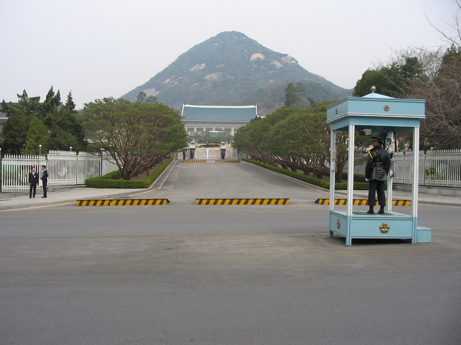 “Cheongwadae” or Blue House in Seoul. Home of the Korean President